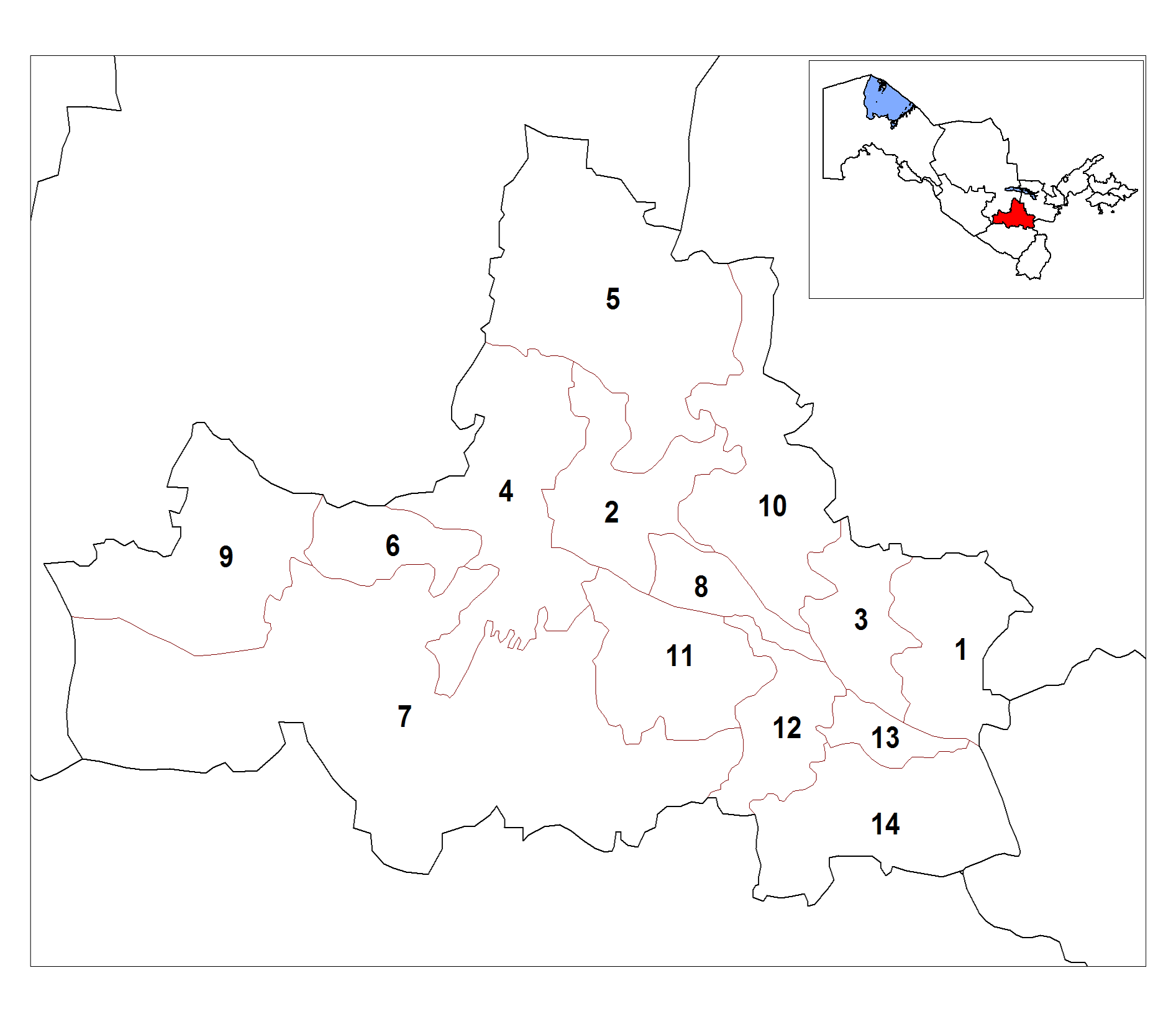 Map of the districts (tuman) of the province (viloyat) of Samarqand in Uzbekistan.